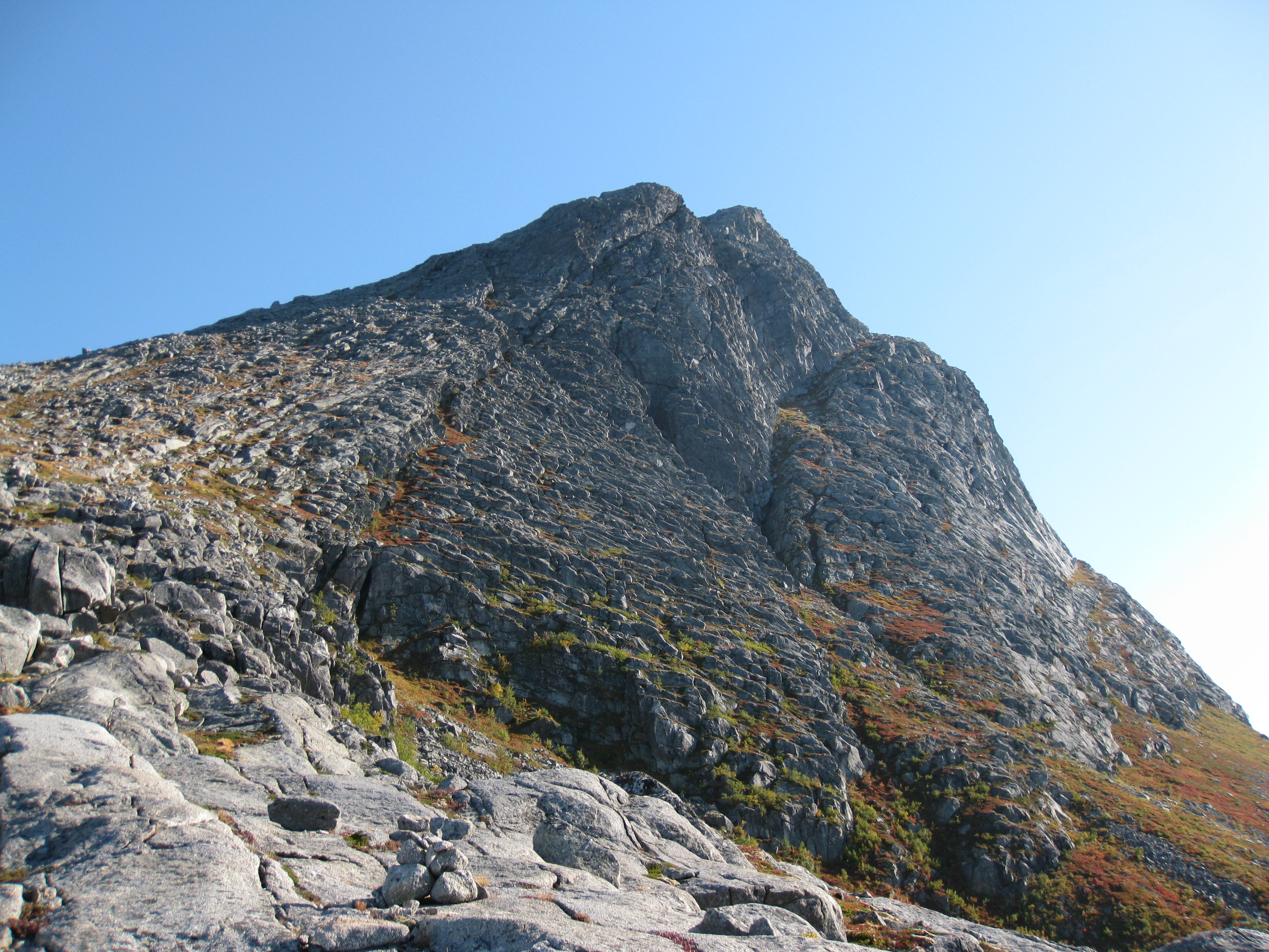 Stortinden seen from half way up towards the summit.